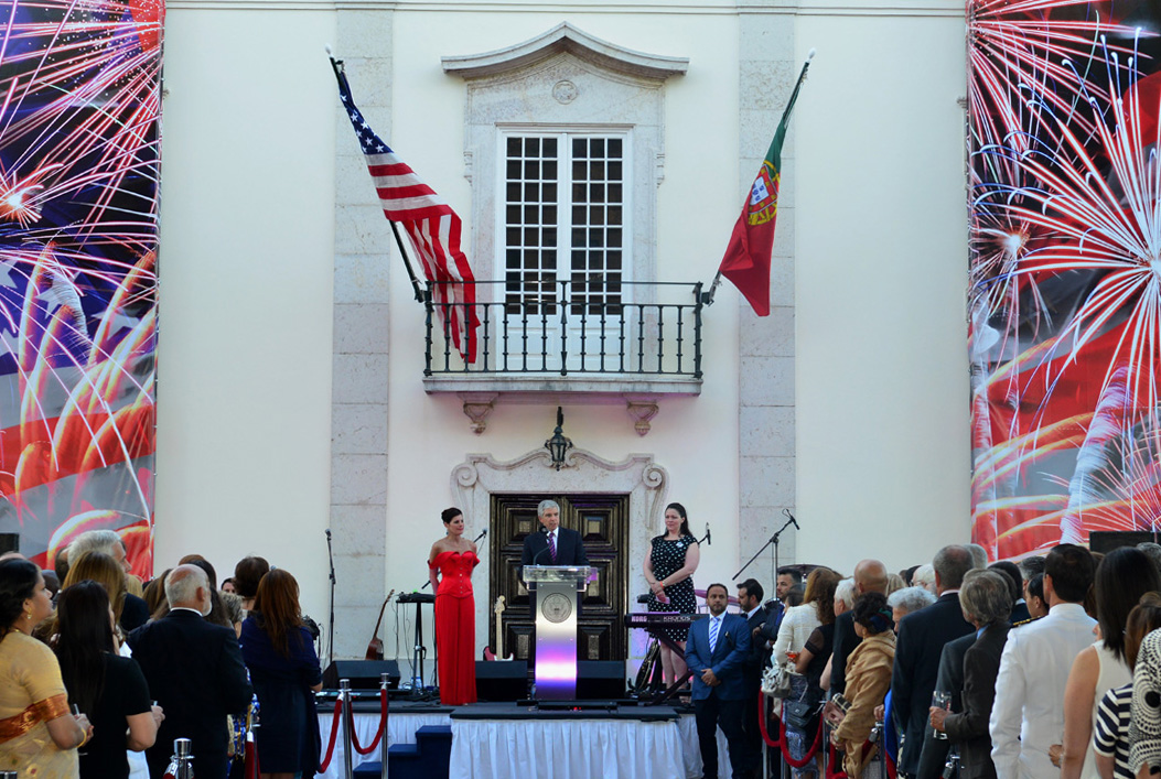 U.S. Ambassador to Portugal Robert Sherman and his wife, Kim Sawyer, hold a ceremony at the U.S. Embassy in Lisbon to celebrate the 239th anniversary of the Independence of the United States on July 3, 2015. [State Department photo/ Public Domain]